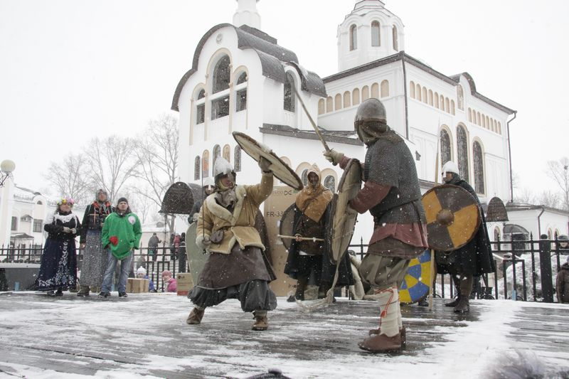 Performance of the historical reenactors